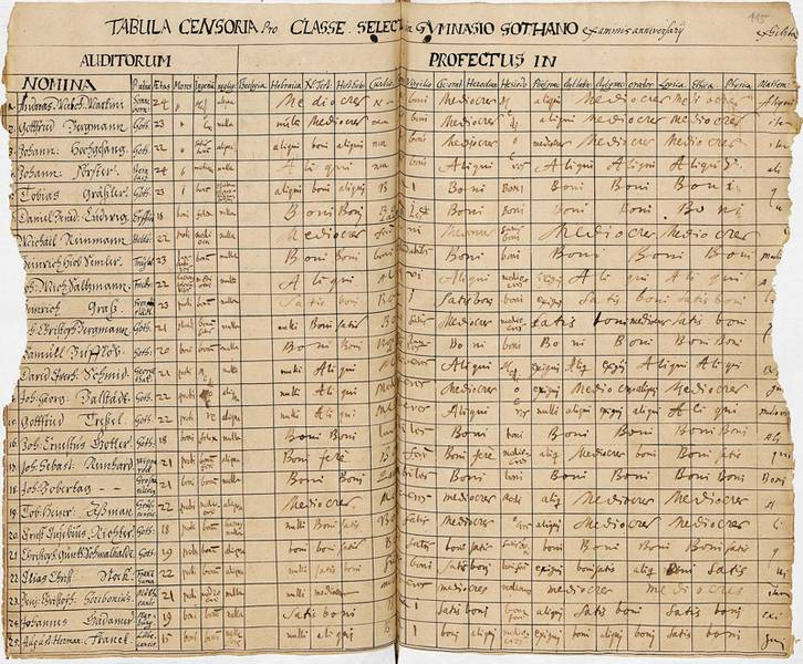 1677 Report card for the "Selecta" (senior grade) of the Gymnasium Ernestinum Gotha for today in Thüringer Staatsarchiv, Gotha, the last entry at the bottom of the page is that of August Hermann Francke